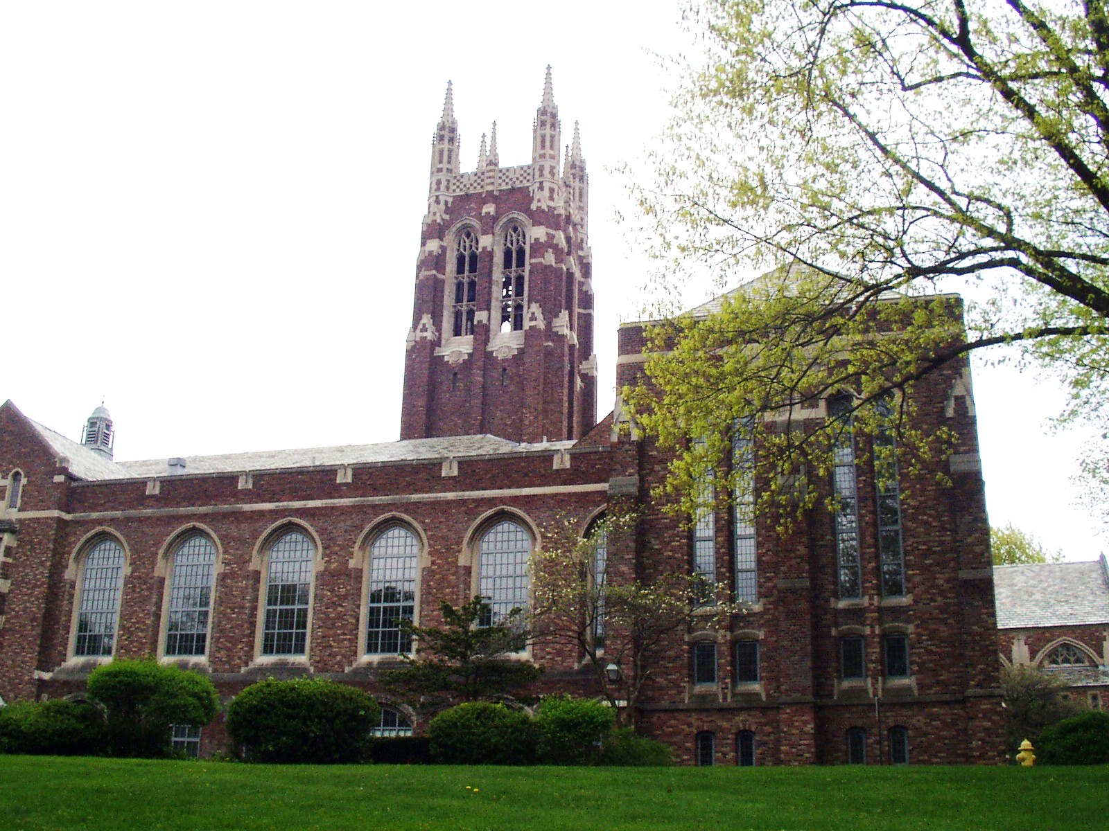 Colgate Rochester Crozer Divinity School in Rochester New York.